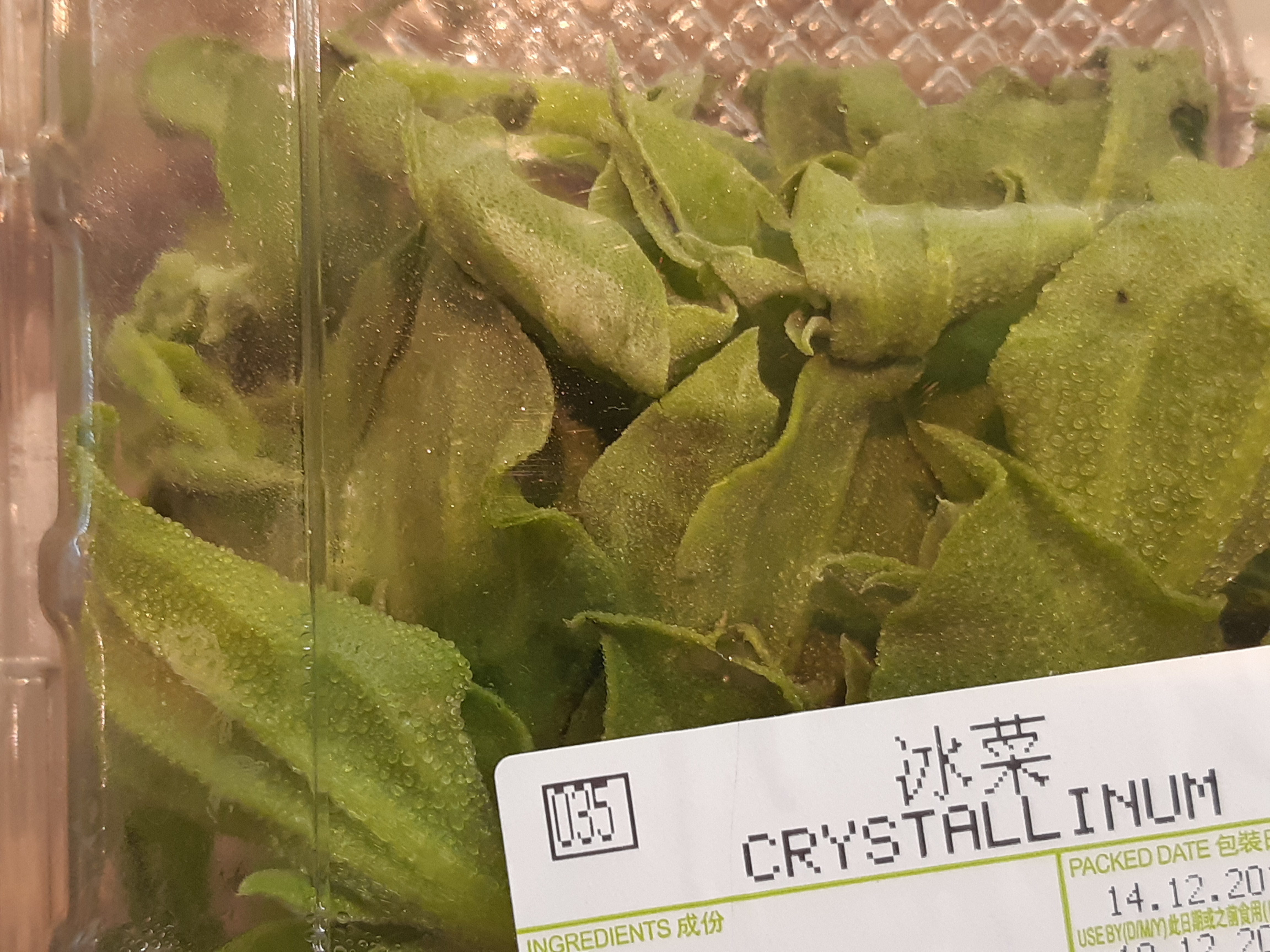 Crystallinum sold as packaged vegetable in local supermarket.